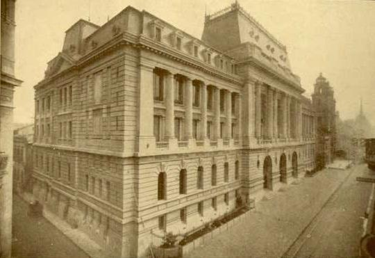 Buenos Aires National College Building, projected by french architect Norbert Maillart in 1908. Built between 1908 and 1938. 263 Bolívar street, Buenos Aires, Argentina.